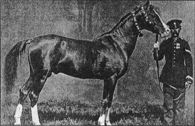 Karabakh horse Alyetmez, from the stud of Khurshud Banu Natavan-Usmiyeva, accredited in Second All-Russian exhibition. Photo 1867.